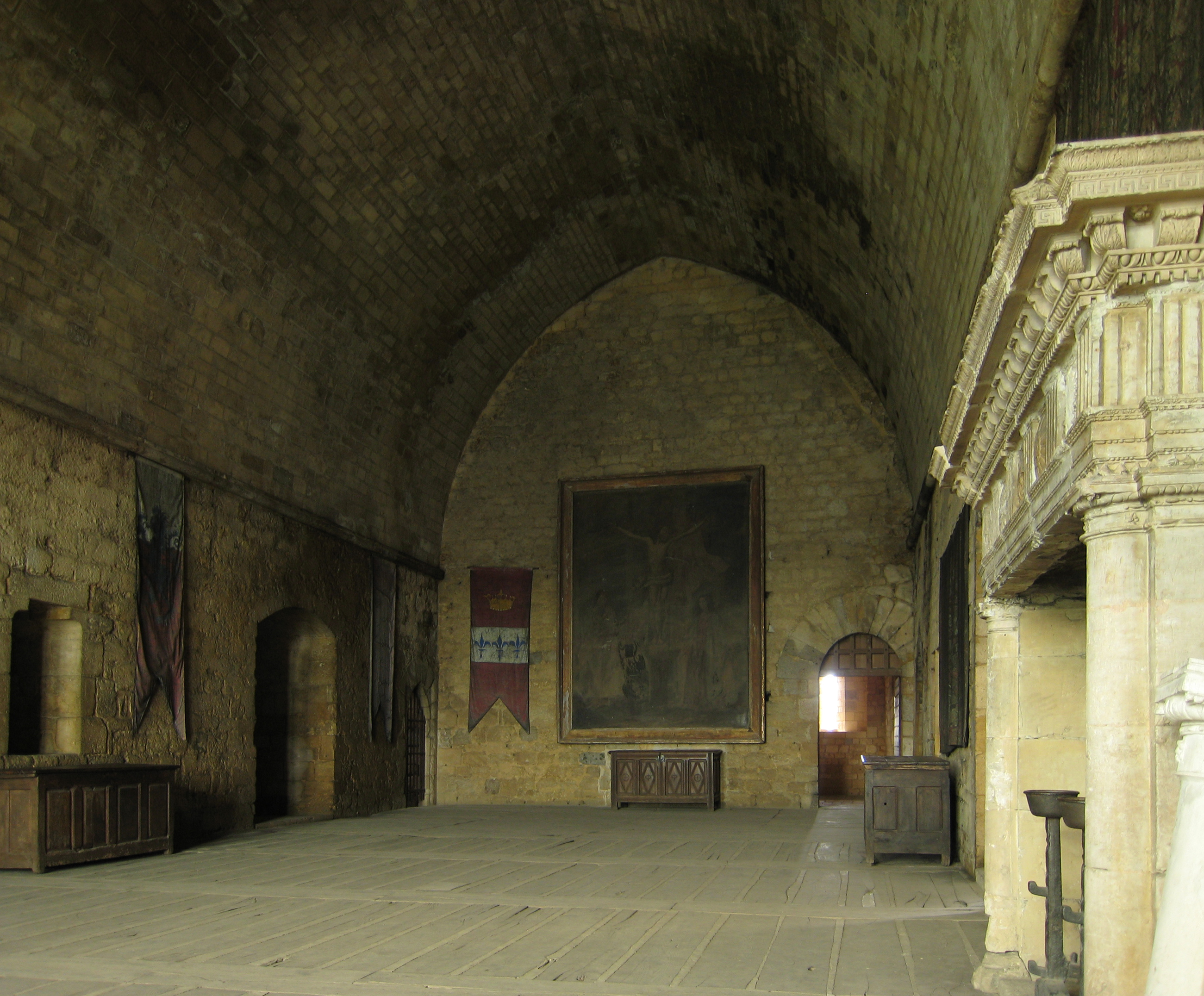 Château de Beynac, situated in the village of Beynac-et-Cazenac in the Département of Dordogne/France - states chamber